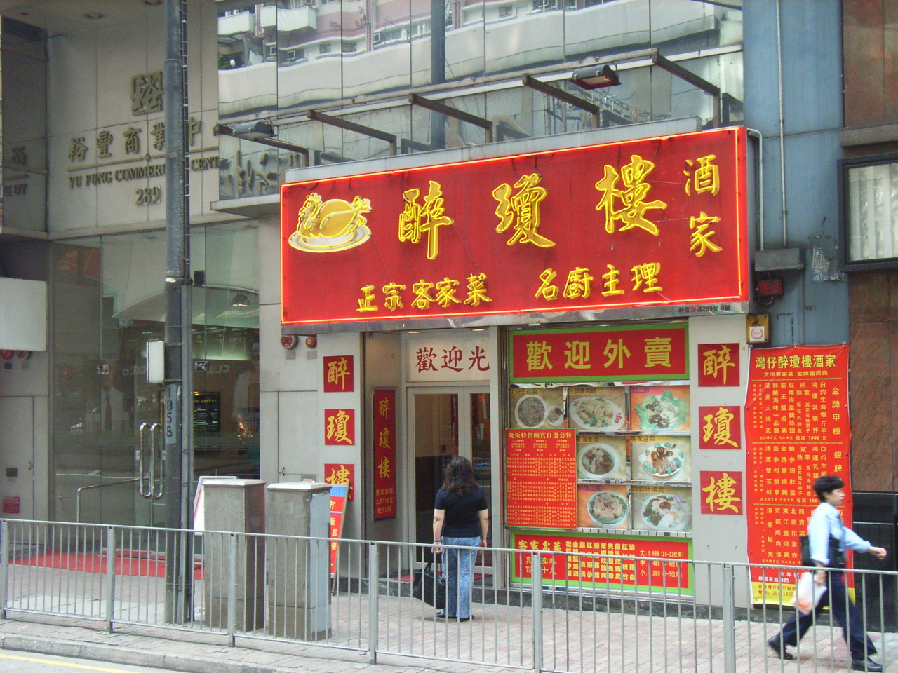 灣仔 軒尼詩道 裕豐商業中心 客家菜 醉瓊樓酒家